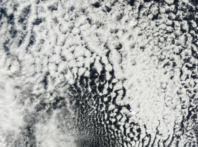 Satellite image providing detail of clouds in closed cellular convection. MODIS Terra image taken southeast of South Africa